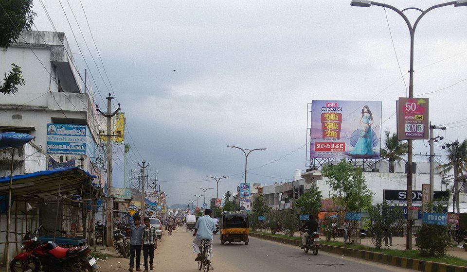 Parvathipuram Towm